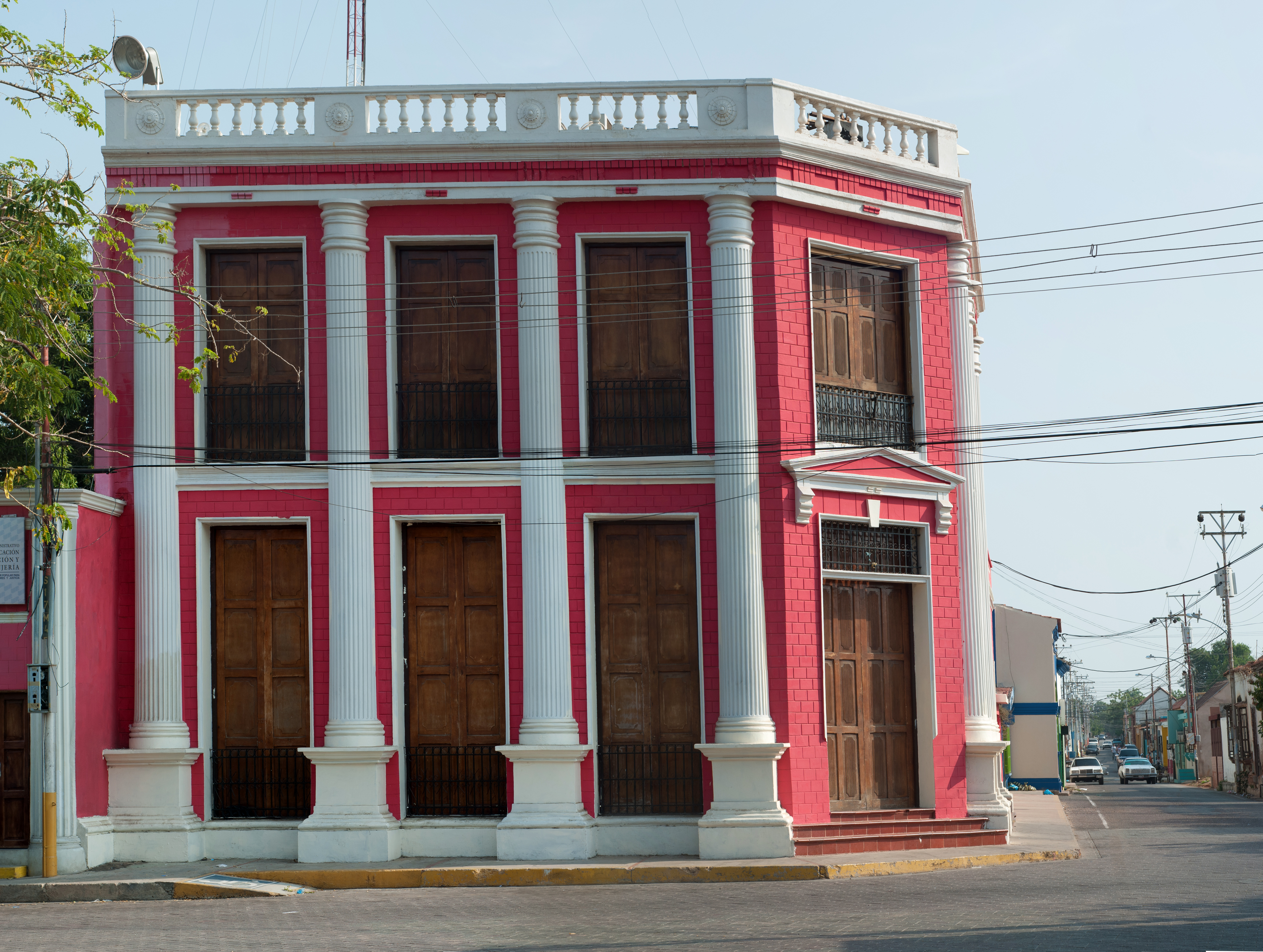 Municipality House of The Ports of Altagracia